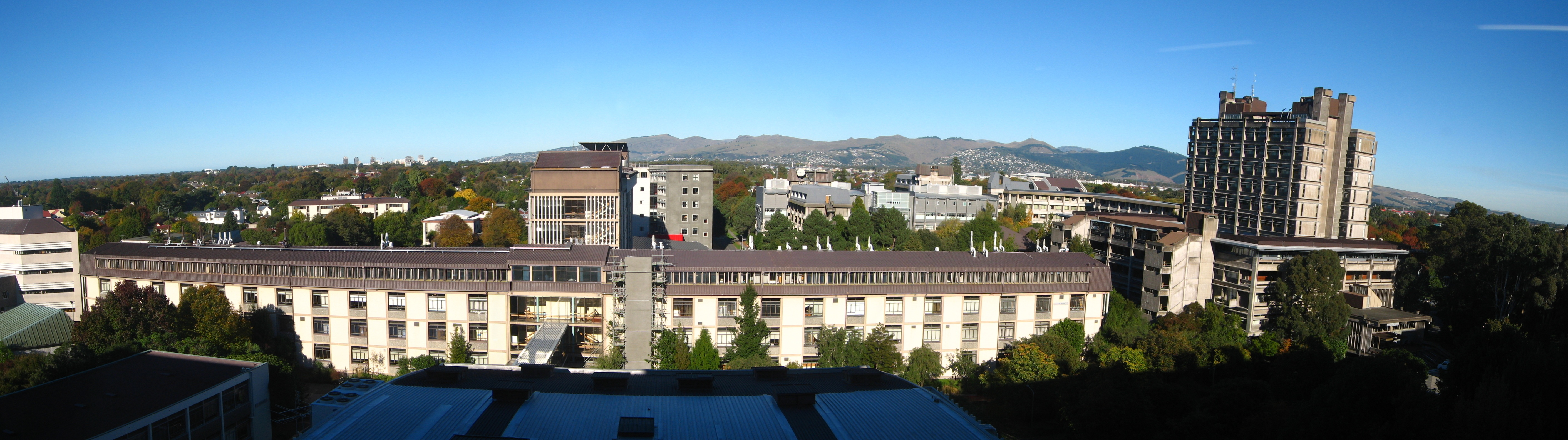 View across campus from Rutherford Building, University of Canterbury, Christchurch.